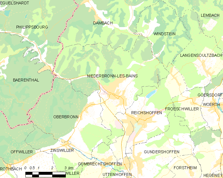 Map of French municipality